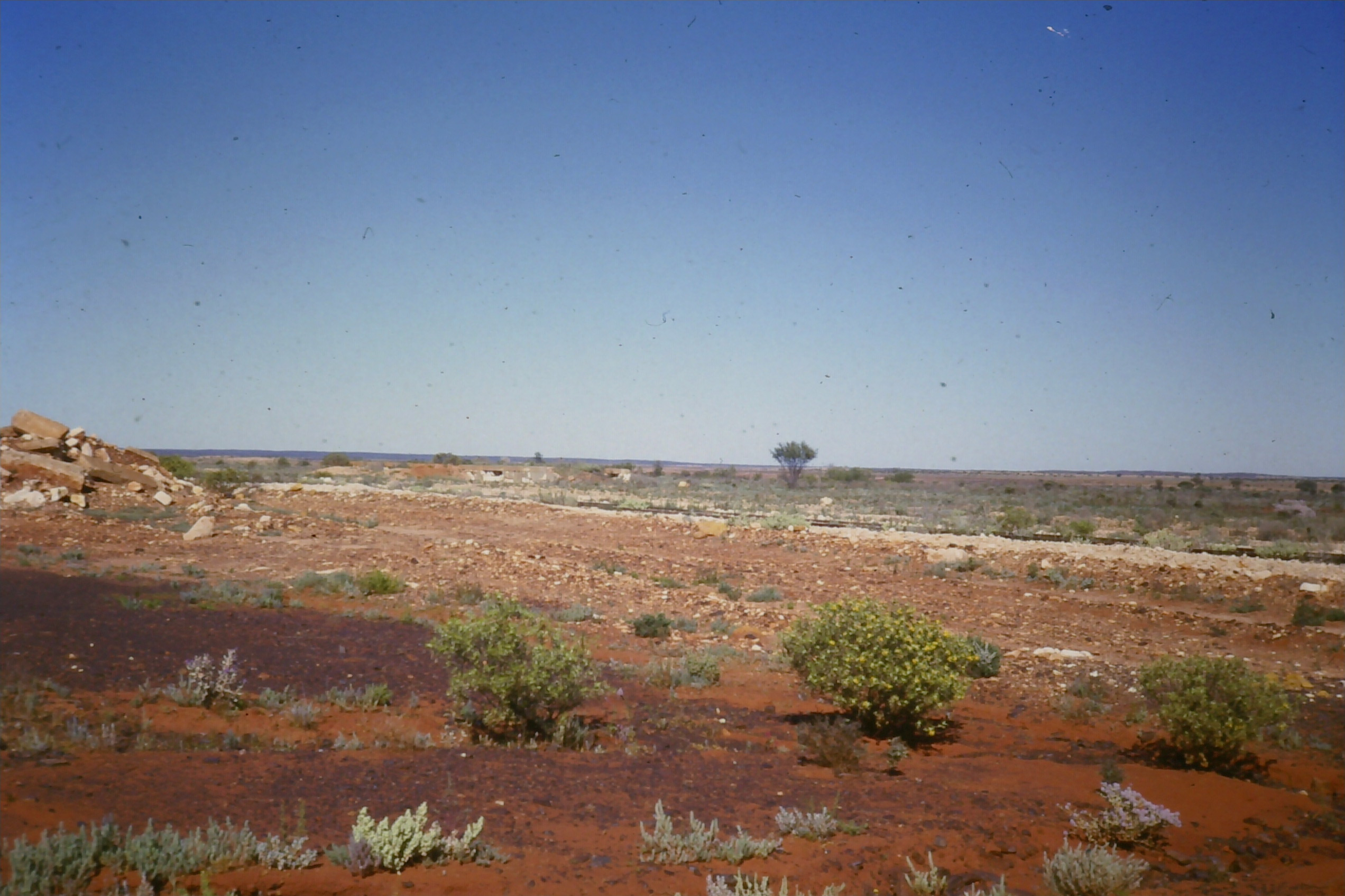 Lake Austin Train Station c1980s, tracks of the line were still in place and have since been removed in mid 80's